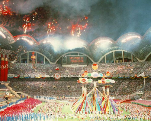 Arirang Festival celebrating Kim Il-sung's birthday at North Korea's Rungrado Stadium.